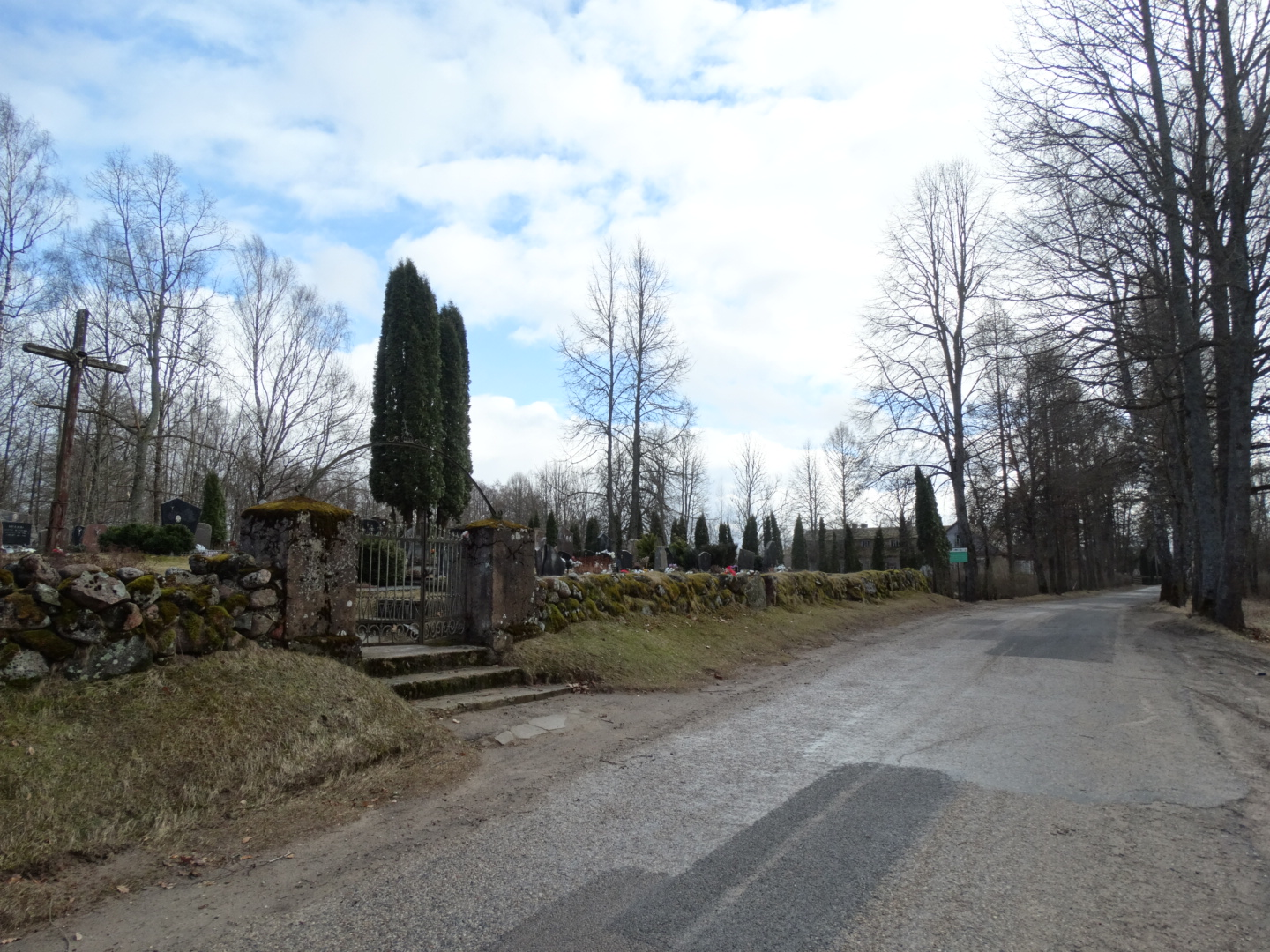 Cemetery in Kvykliai, Utena district, Lithuania